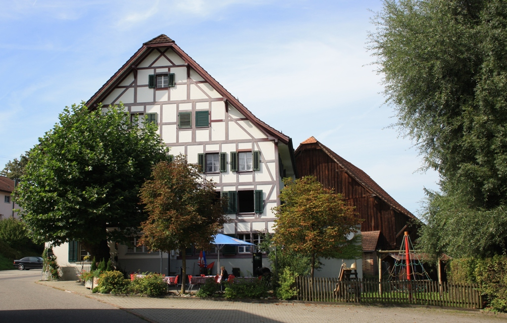 Restaurant at Meienberg, Sins, Aargau, Switzerland